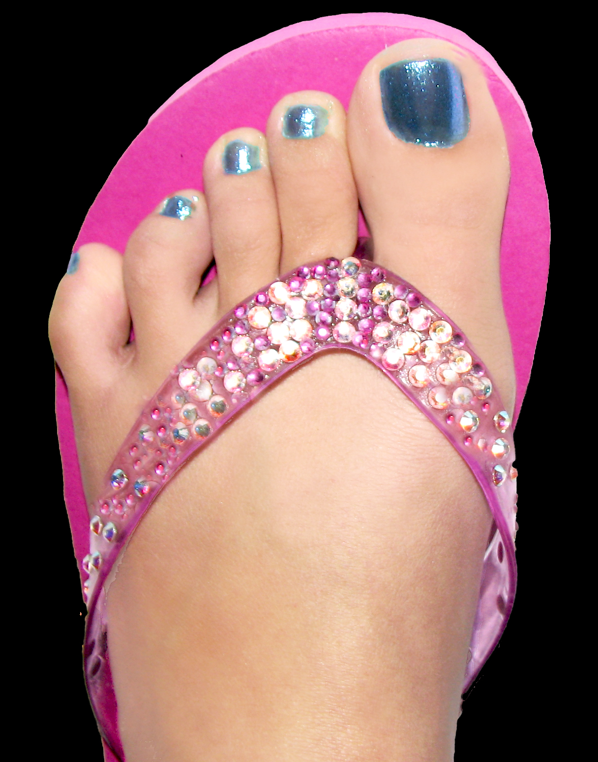 Pink Swarovski Crystal Flip Flops